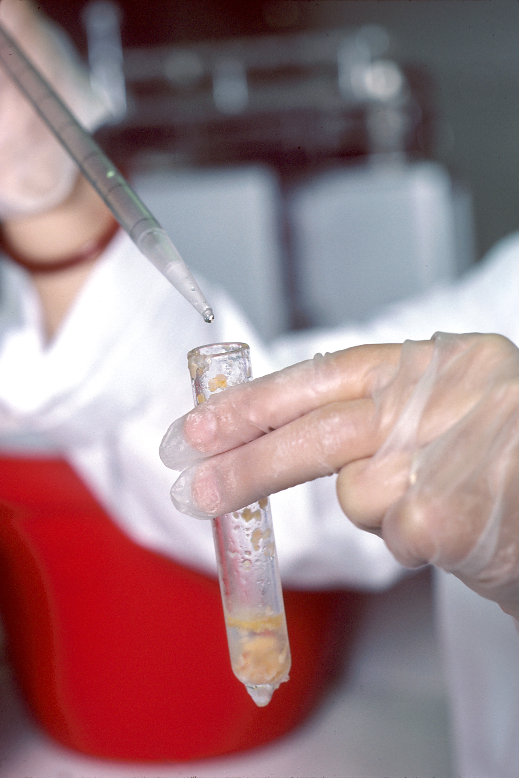 Title Estrogen Receptor Assay Description Seen are a technician's hands performing a lab test. The test tube with some frozen breast tissue and some liquid are visible, as well as the techician in some slides. This is the estrogen receptor assay being performed at the time of mastectomy. Results suggest whether removal of ovaries or use of antiestrogen drugs are likely to be effective therapy. Topics/Categories Test or Procedure -- Lab Tests Type Color, Photo Source National Cancer Institute